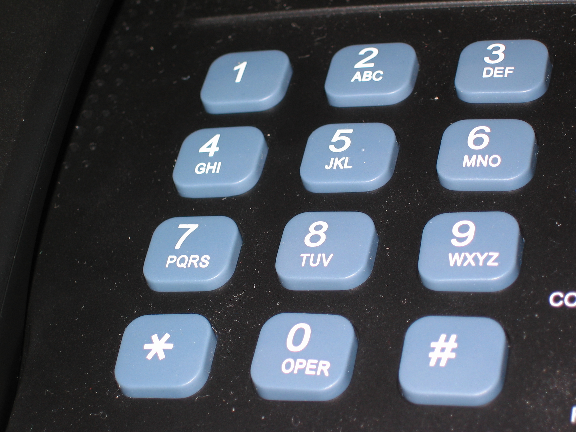 A typical phone number pad, taken from a Grandstream BudgeTone 102 SIP-based telephone.